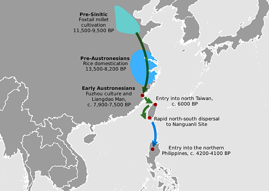 Suggested Migration Route for Early Austronesians Into and Out of Taiwan Geographic regions in China of foxtail millet domestication (teal) delimited by Nanzhuangtou, Cishan, and Yuezhuang, and of rice domestication (blue) in the Yangtze River Valley. Shown are early Austronesians in the Fuzhou region, entry into north Taiwan, and rapid north-south dispersal along the west coast and crop cultivation at Nanguanli. One Austronesian language subgroup from Taiwan is ancestral to the Proto-Malayo-Polynesian language subgroup in the Philippines. Note: This hypothesis assumes the Sino-Austronesian grouping, a minority view among linguists. per: Ko, Albert Min-Shan; Chen, Chung-Yu; Fu, Qiaomei; Delfin, Frederick; Li, Mingkun; Chiu, Hung-Lin; Stoneking, Mark; Ko, Ying-Chin (March 2014). "Early Austronesians: Into and Out Of Taiwan" (PDF). The American Journal of Human Genetics. 94 (3): 426–436.